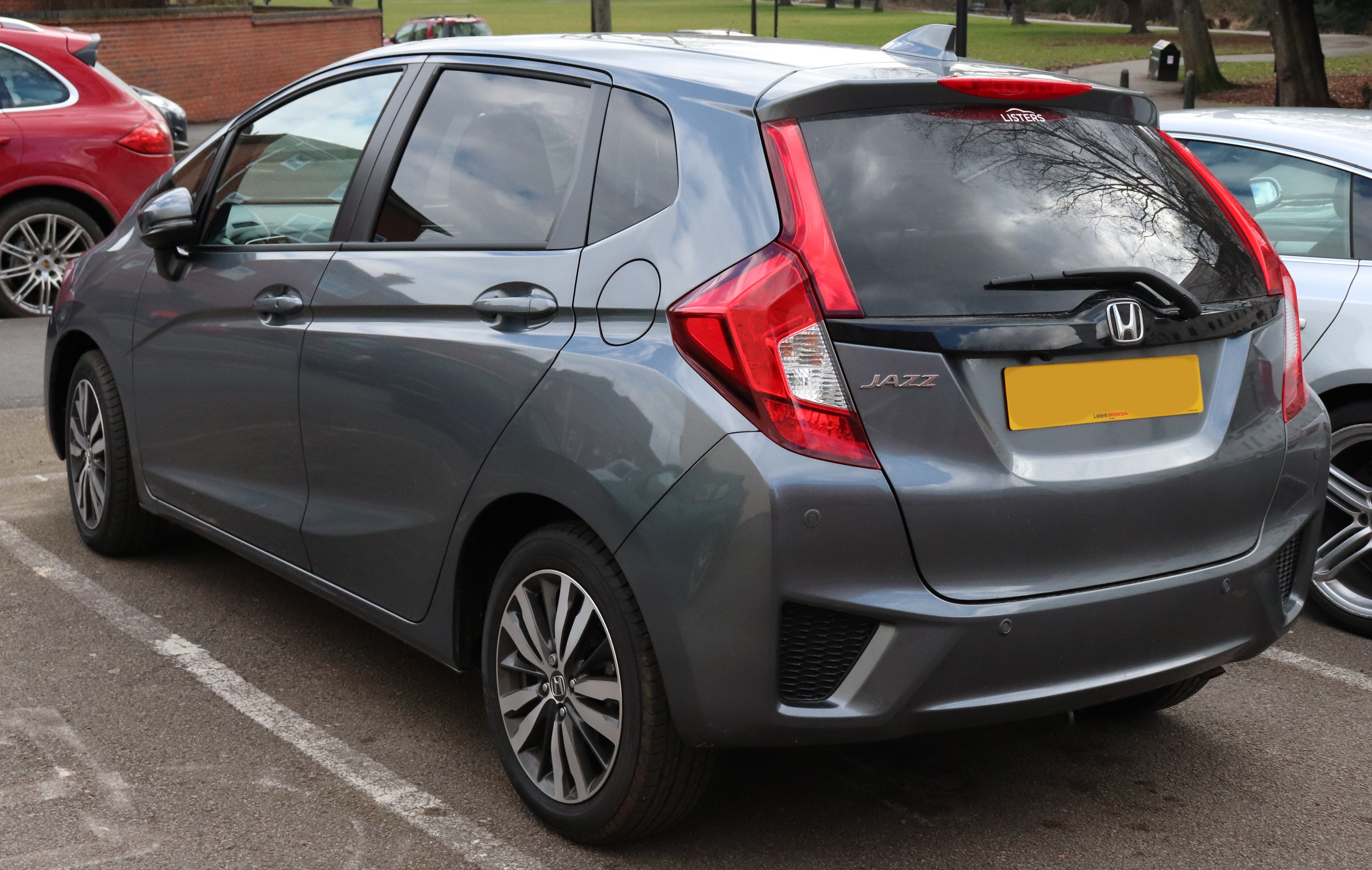 2017 Honda Jazz EX I-VTEC 1.3 facelift Rear Taken in Leamington Spa